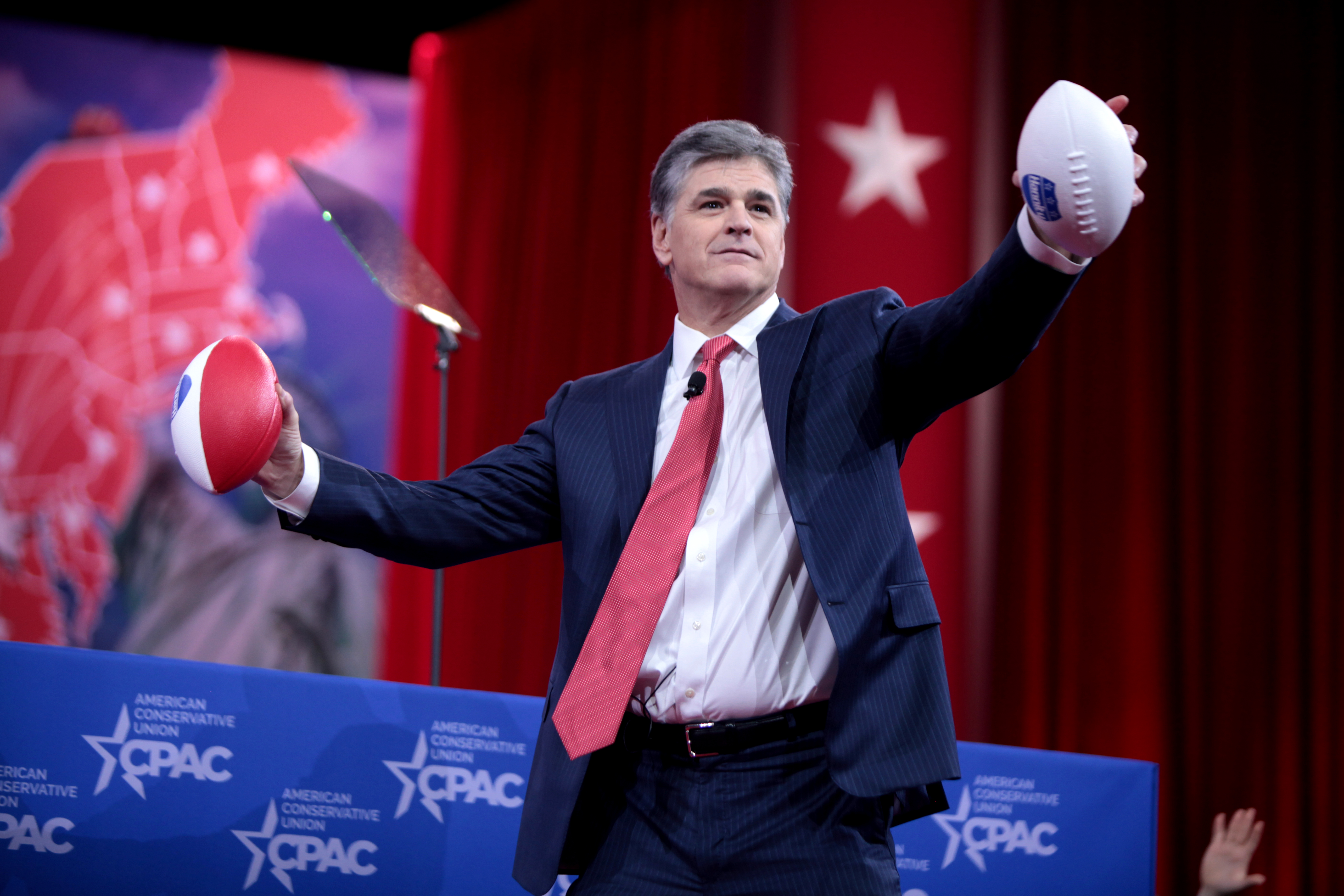 Sean Hannity speaking at CPAC 2015 in Washington, DC.